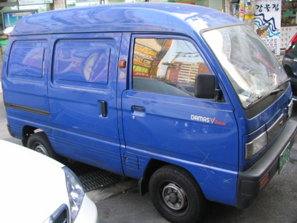 Ian Finnesey